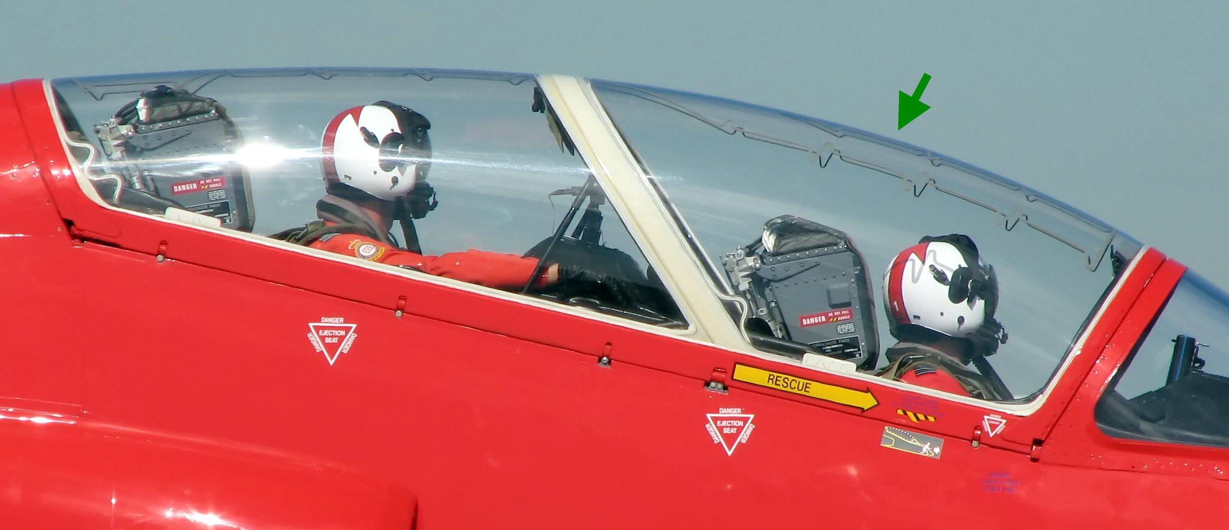 Red Arrows Hawk in closeup, taxiing for takeoff at the Royal International Air Tattoo, Fairford, Gloucestershire, England. Registration could be XX264 or XX267. The green Arrow show to Detonating Cord